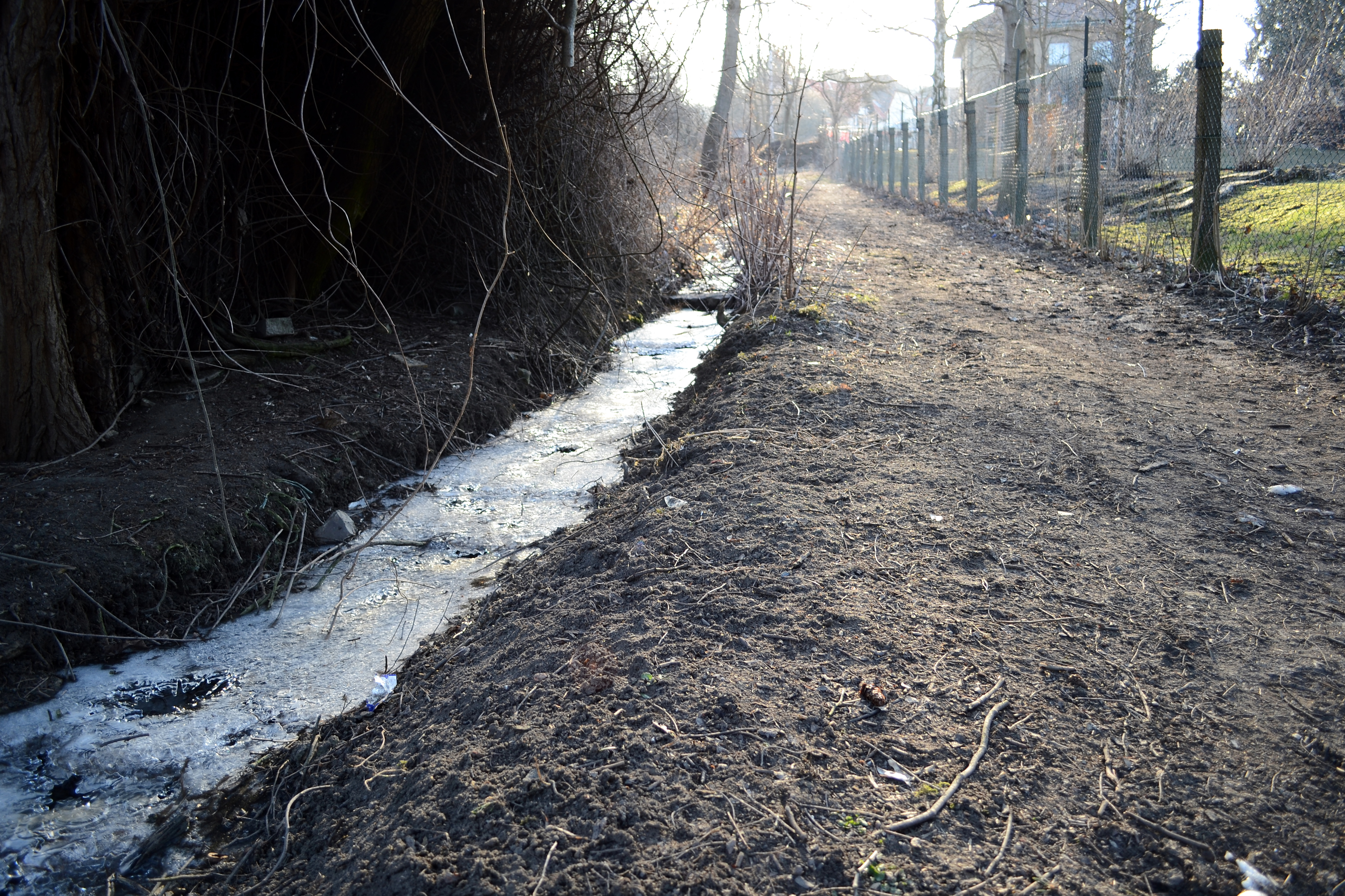 Water stream Dejvický potok, between the streets V Předním Veleslavíně and Na Rozdílu in Prague 6, Czech Republic.